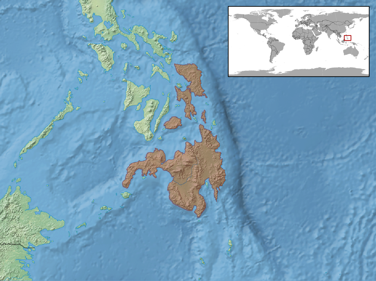 geographic distribution of Sphenomorphus acutus